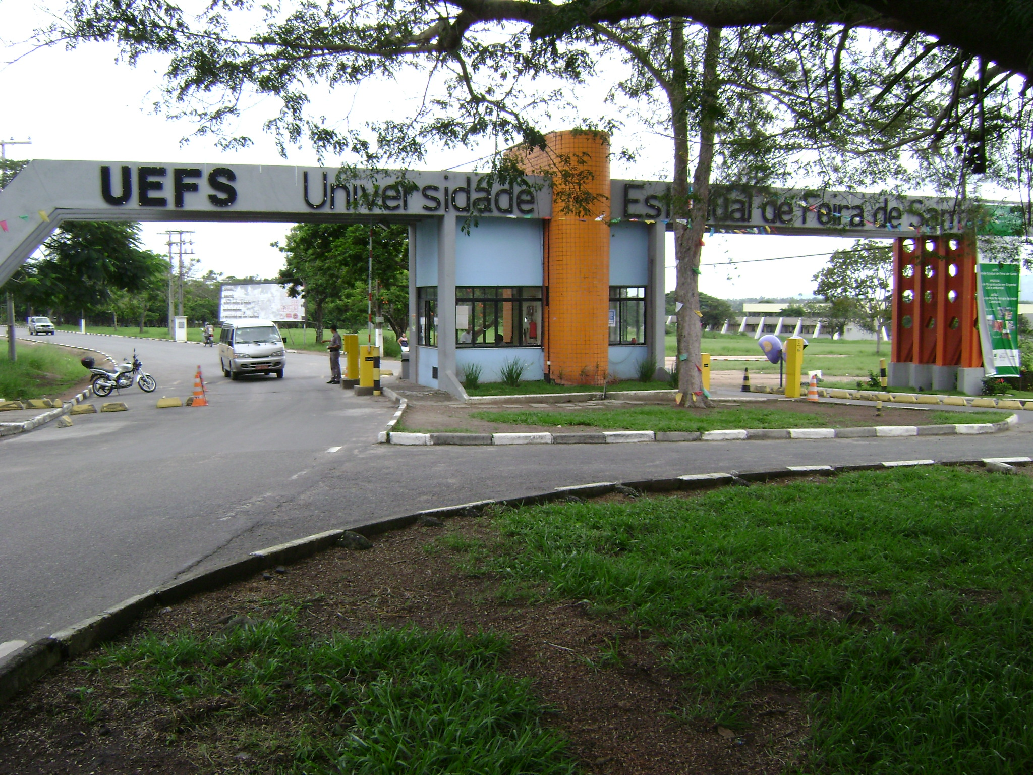 Entrance of Universidade Estadual de Feira de Santana, in Feira de Santana, Bahia, Brazil.